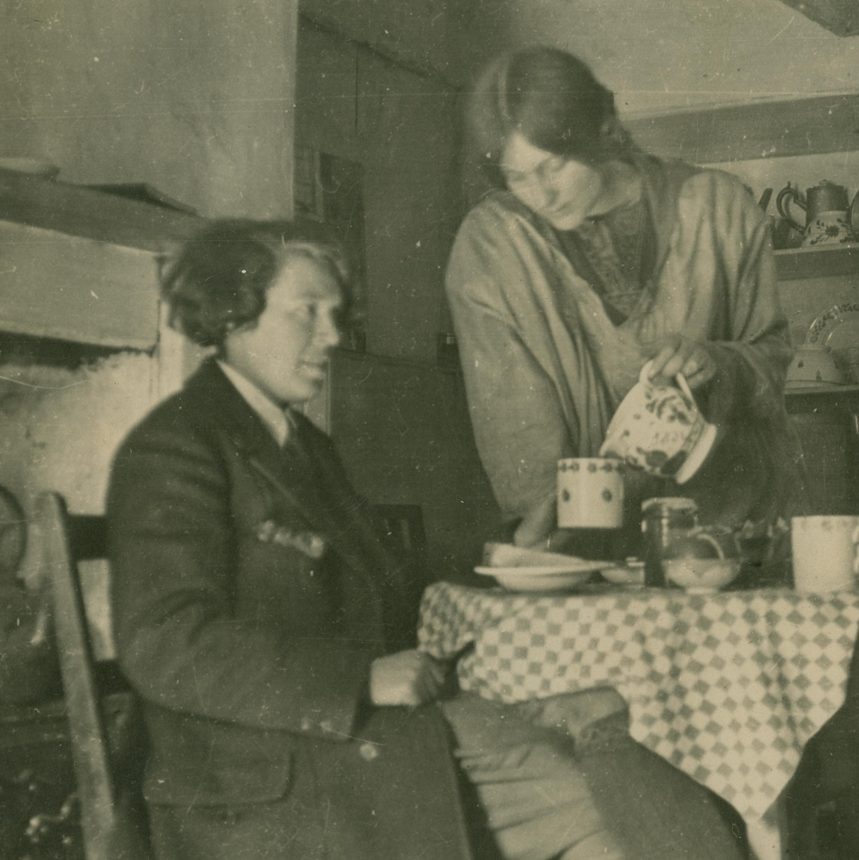 Vera Jack Holme, 1918 - She is to left and the artist and her lover Dorothy Johnstone is standing ref 7vjh 5 1 33